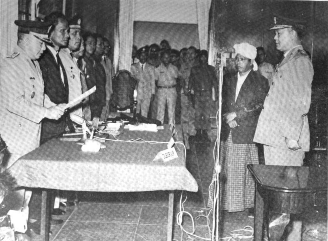 Governor Marah Halim Harahap inaugurated by the General Secretary of the Minister of Home Affairs, Soenandar Prijosoedarmo.